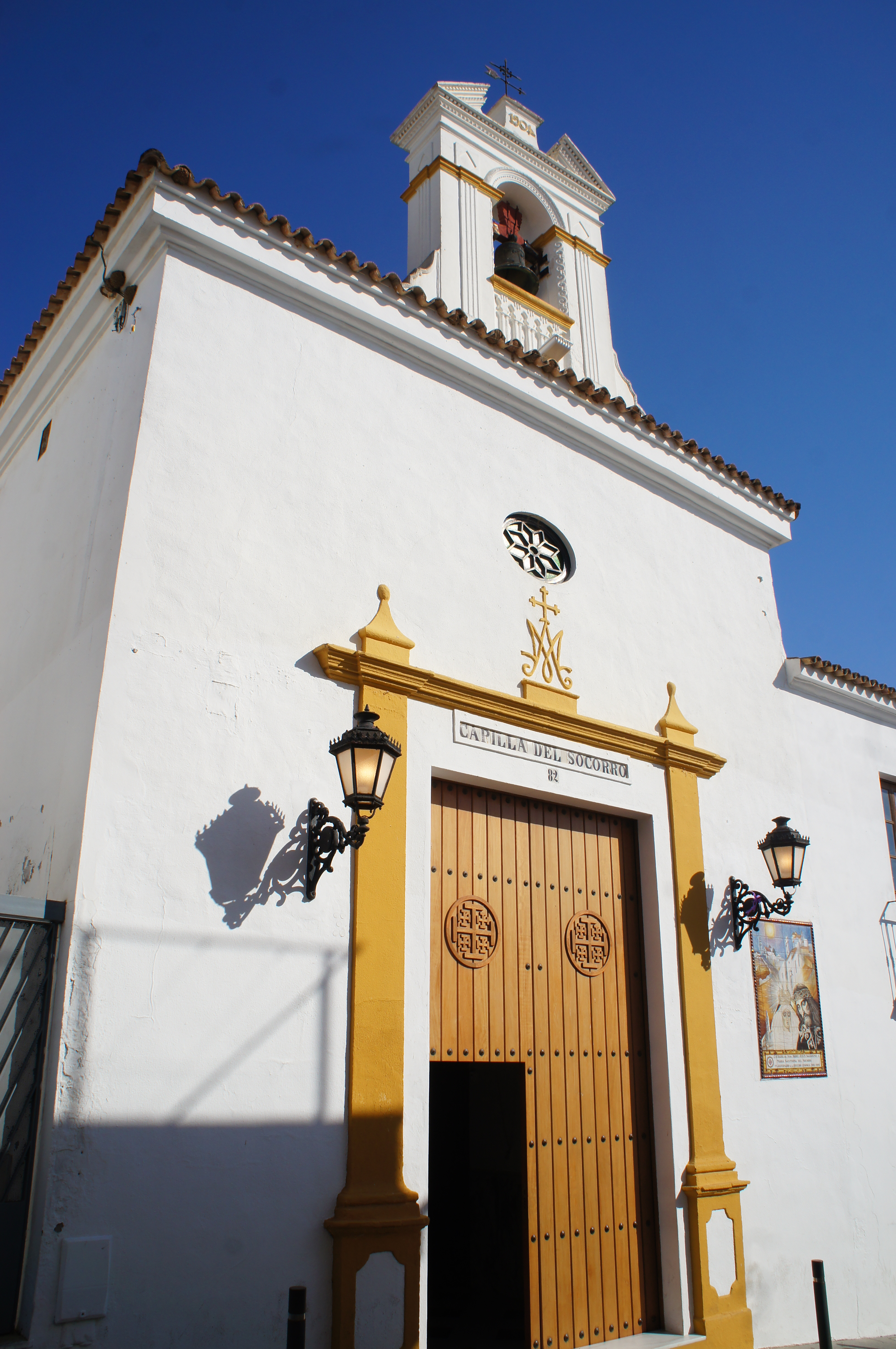 Capilla del Socorro